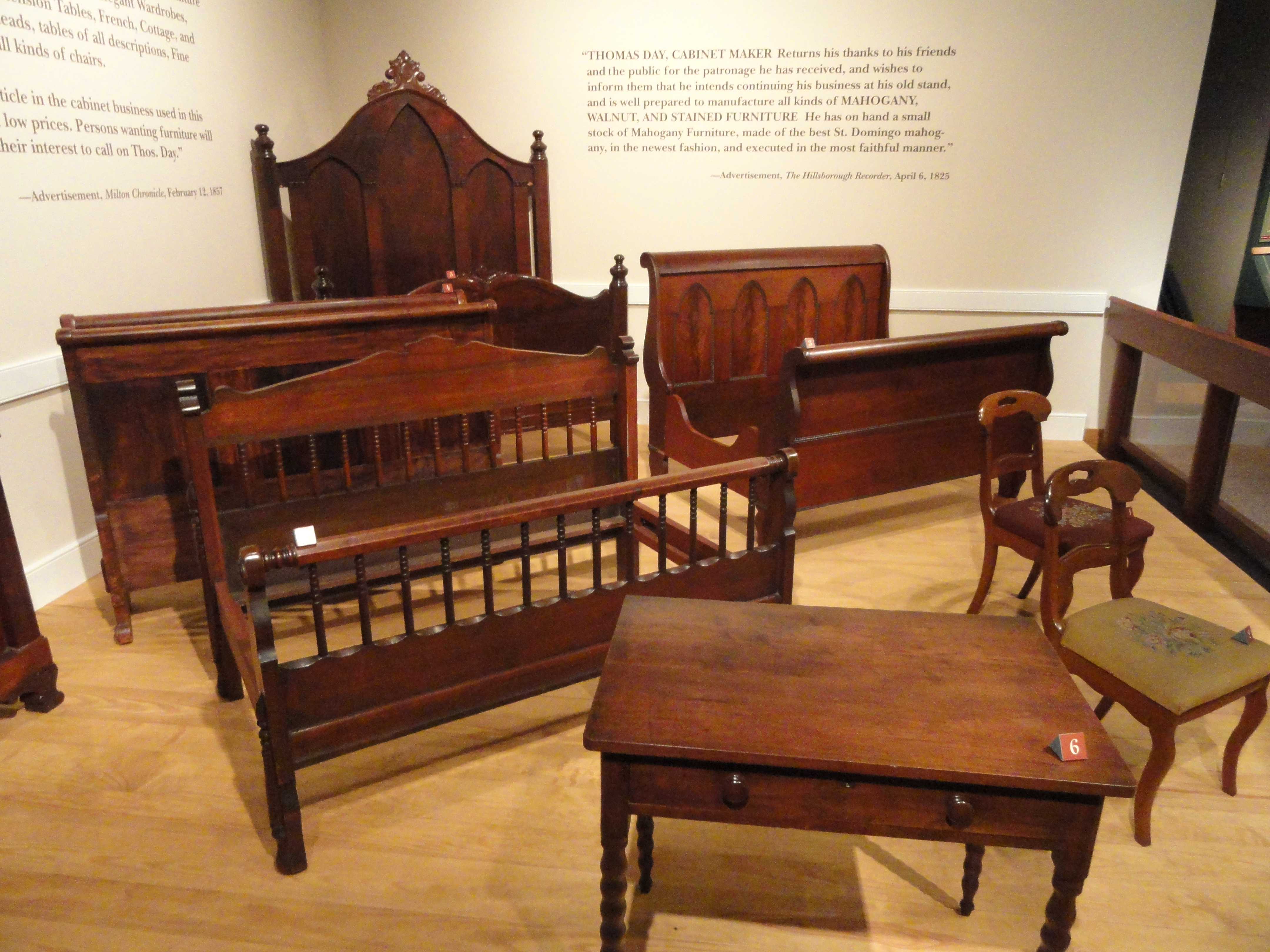 Furniture exhibit in the North Carolina Museum of History, Raleigh, North Carolina, USA.